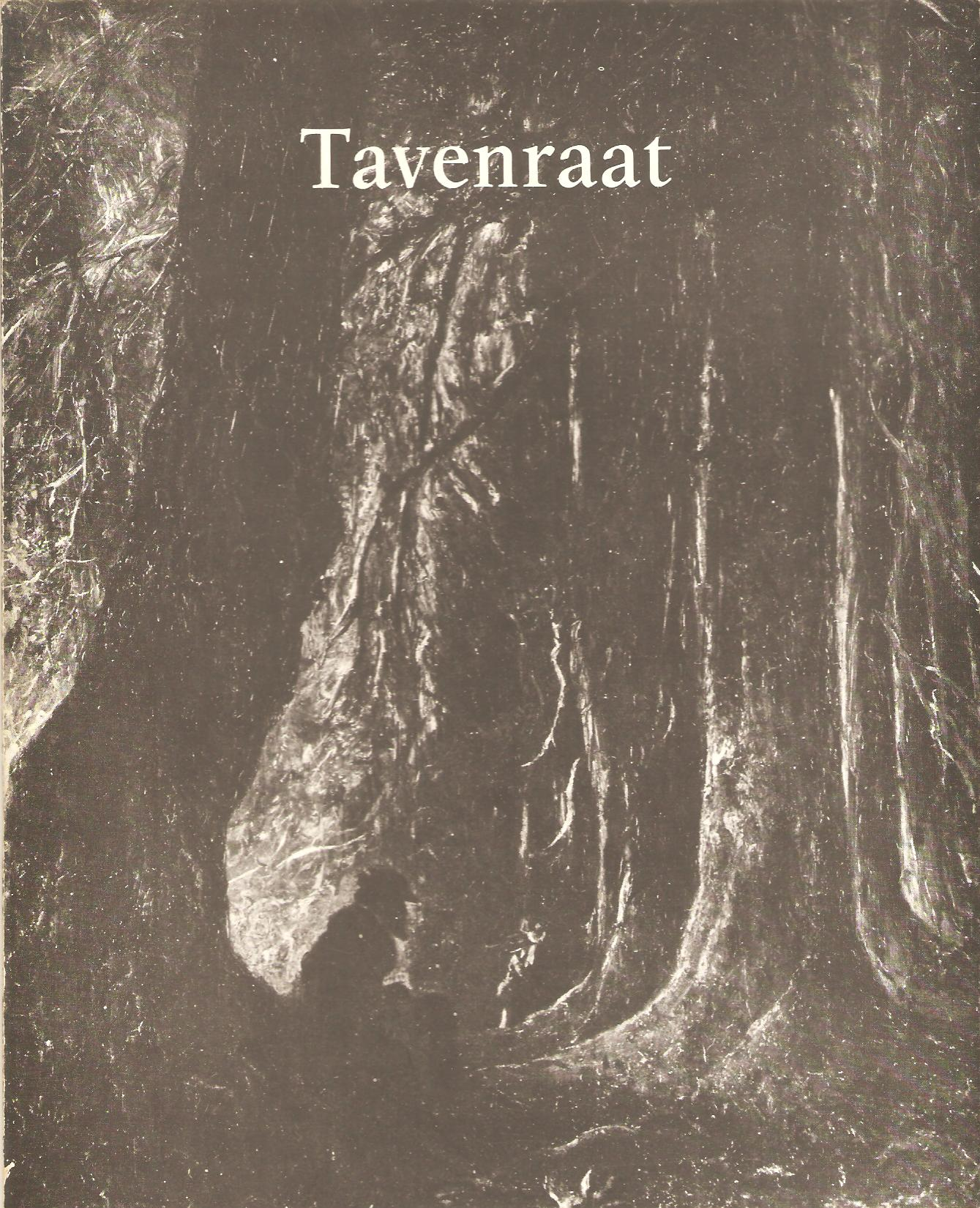 Exhibition Johannes Tavenraat 1973